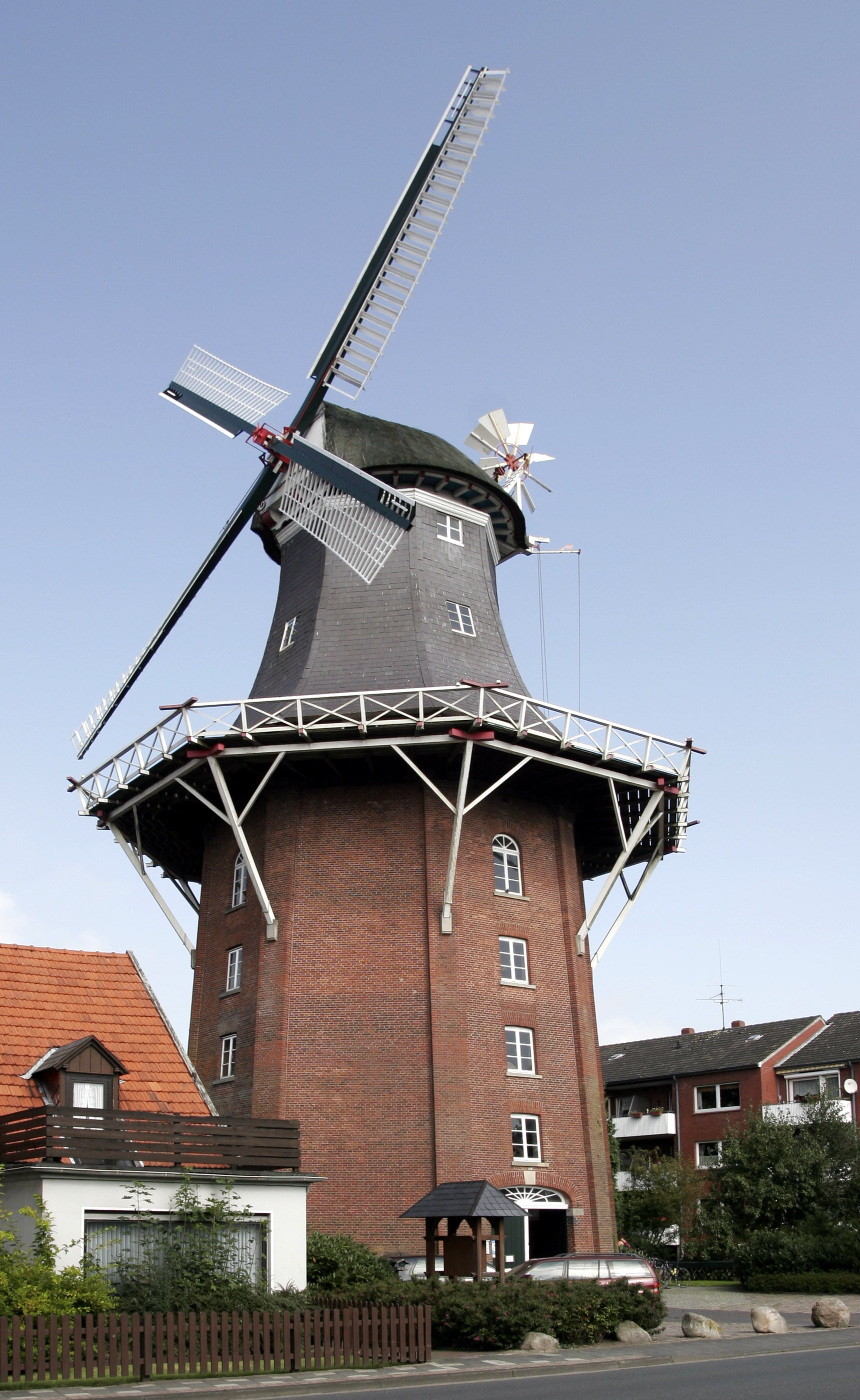 Windmill of Varel (Germany)